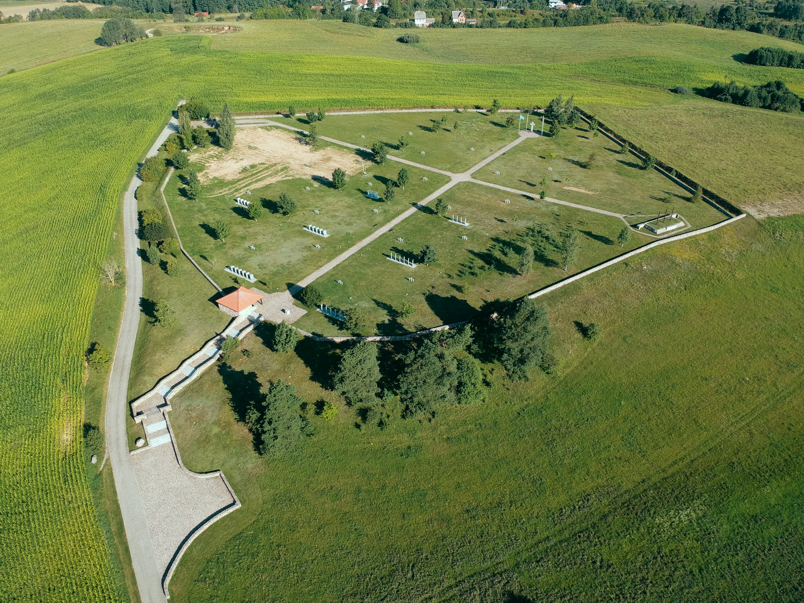 Bartosze close Ełk - the German soldiers' cemetery killed during The First and The Second World War - August 2017